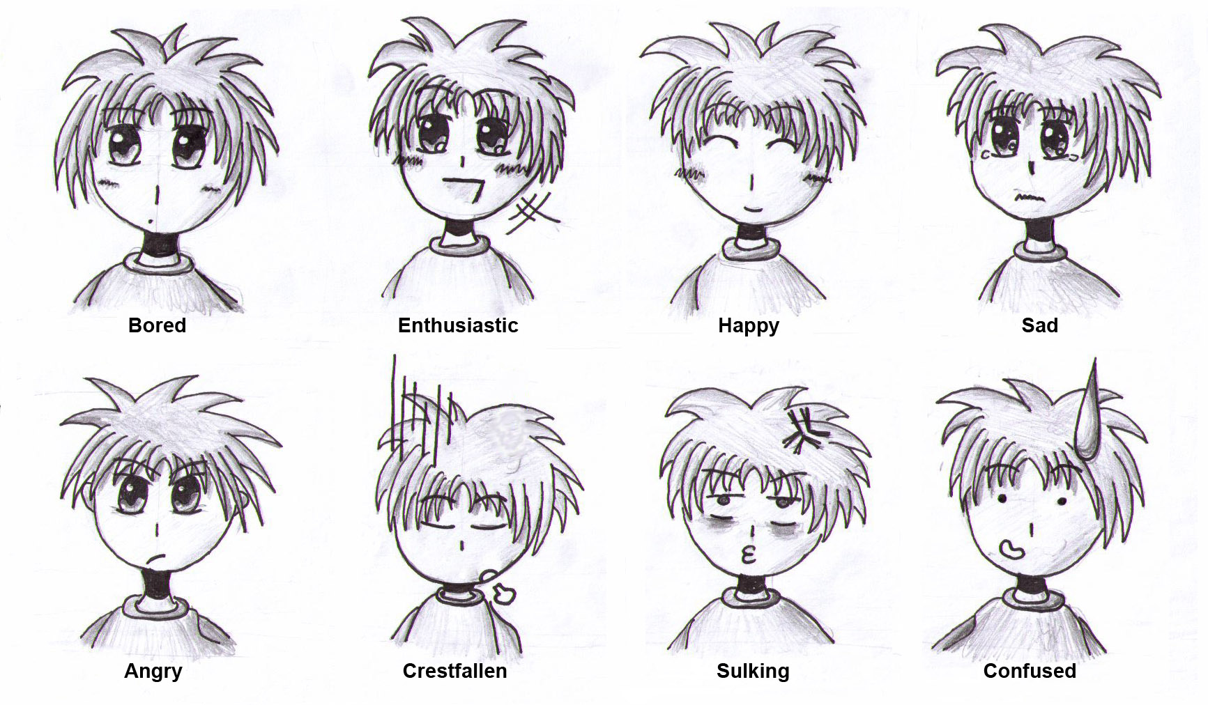 A sheet of simple faces drawn in the manga style, demonstrating a range of common emotions. This image is a derivative of Image:Manga emotions.jpg intended for use on the English Wikipedia. The captioning has been translated into English from the previous German, and I aligned the faces. Drawer / Zeichner: Simon alias Sympho When? / Wann? 15. - 16. Jan 2006